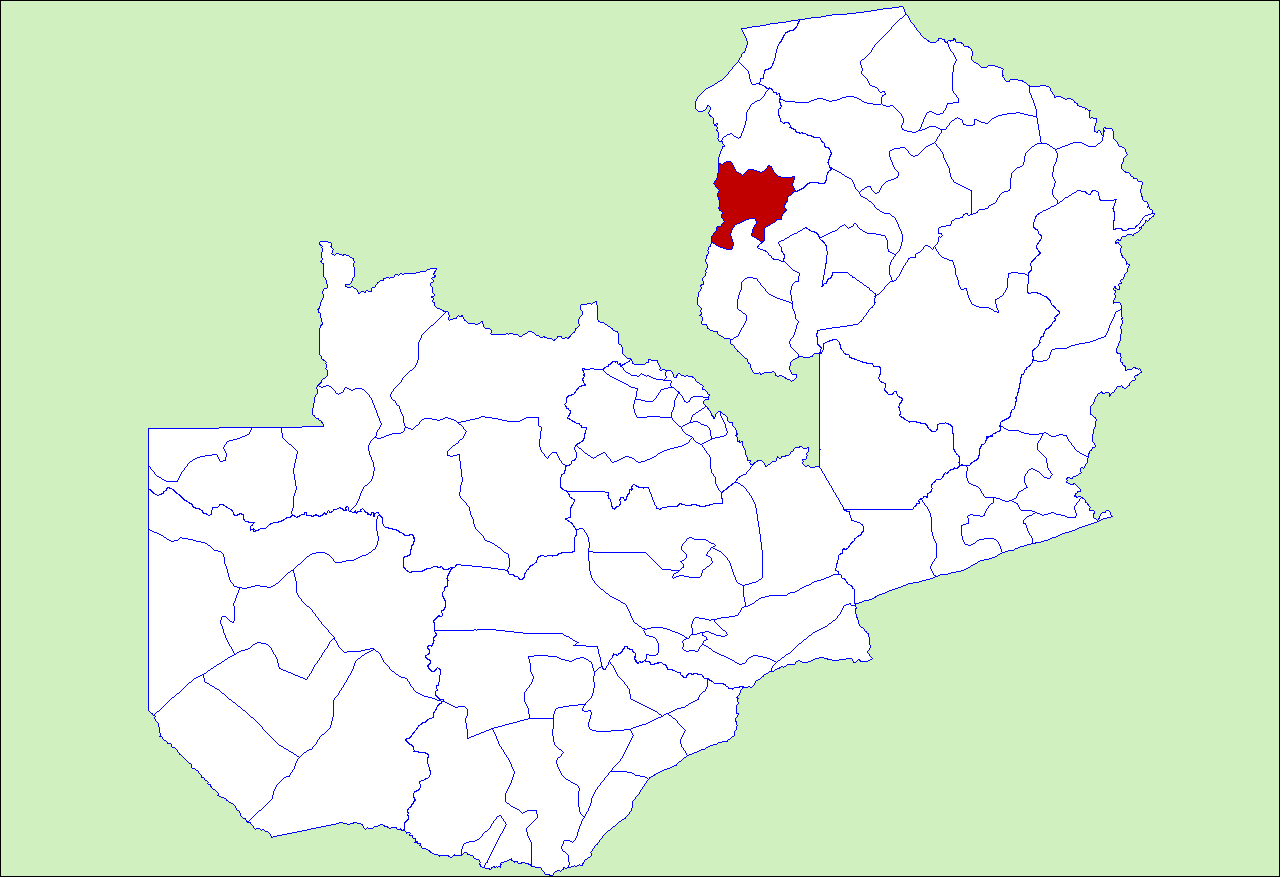 District locator in Zambia